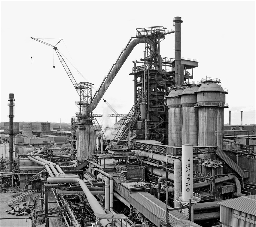 blast furnace no.6 at Trinec integrated works, Czech Republic. Link